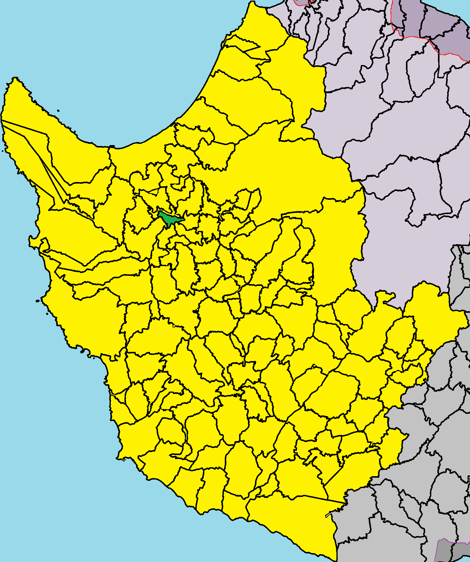 Skoulli in Paphos District.